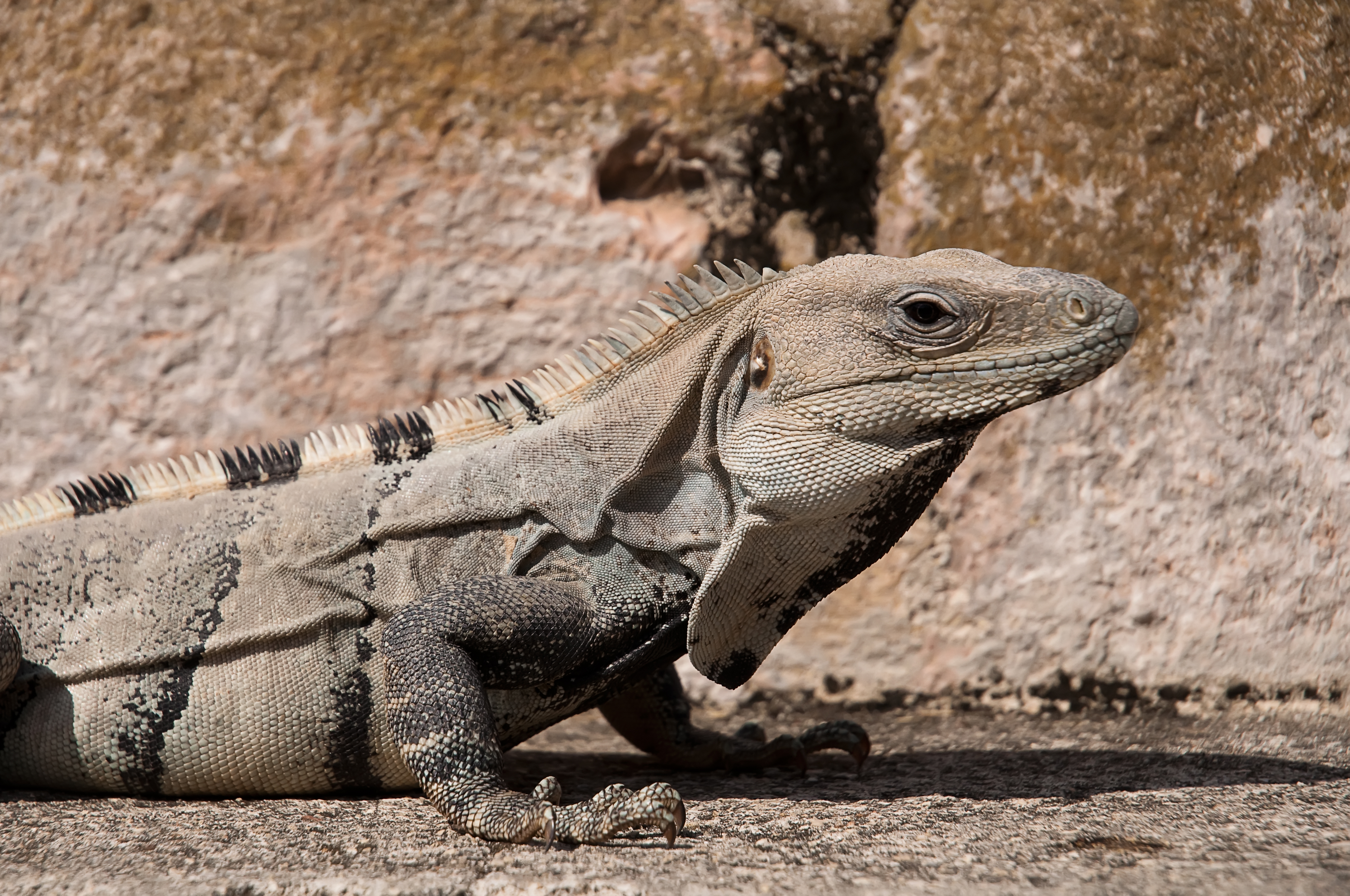 Ctenosaura similis